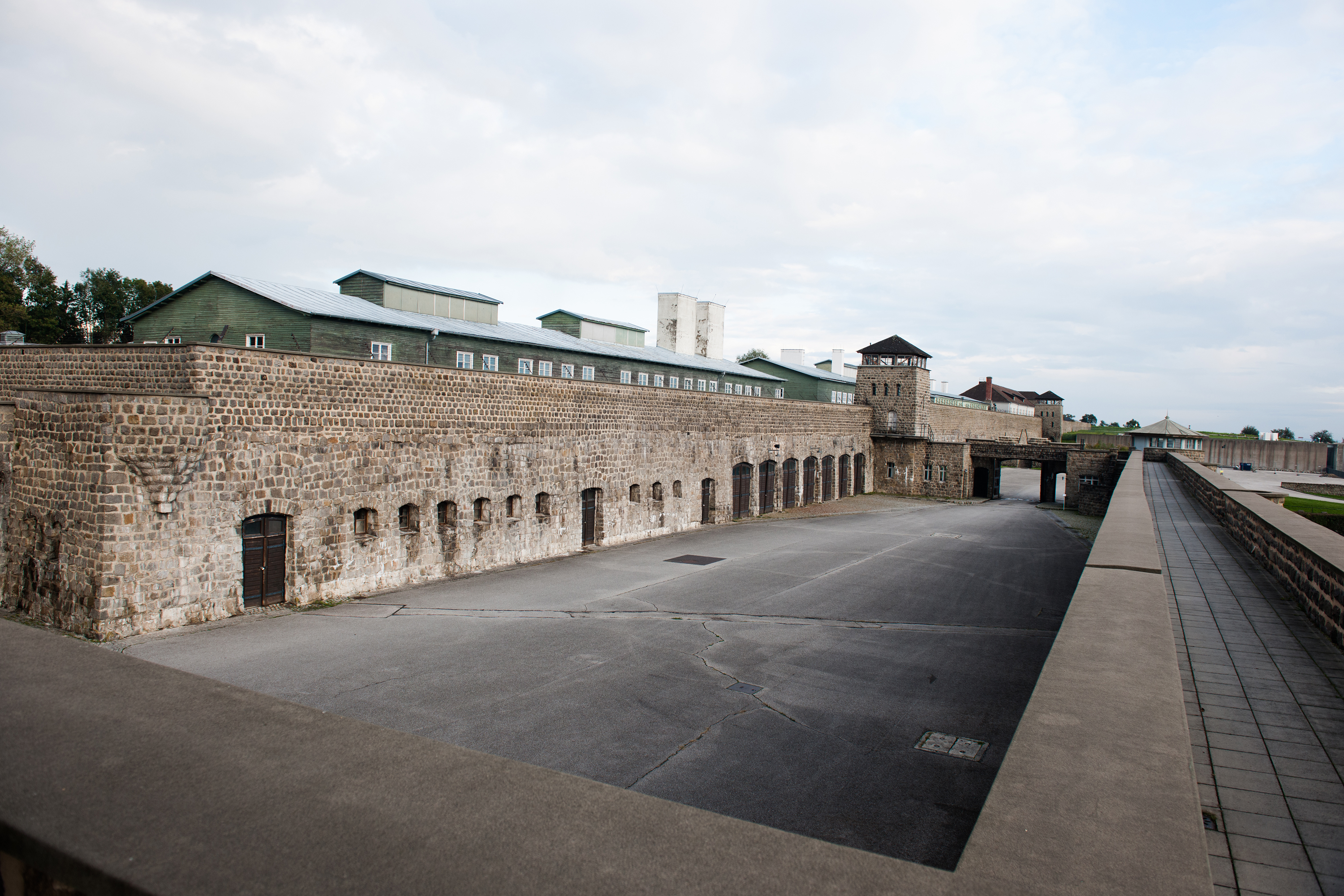 Mauthausen Memorial Dieses Bild wurde anlässlich des österreichischen Tags des Denkmals 2016 in Oberösterreich eingereicht.